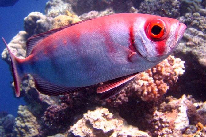 A Crescent-tail Bigeye (Priacanthus hamrur) in barred colour phase. Steve's Bommie, Ribbon Reefs, Great Barrier Reef